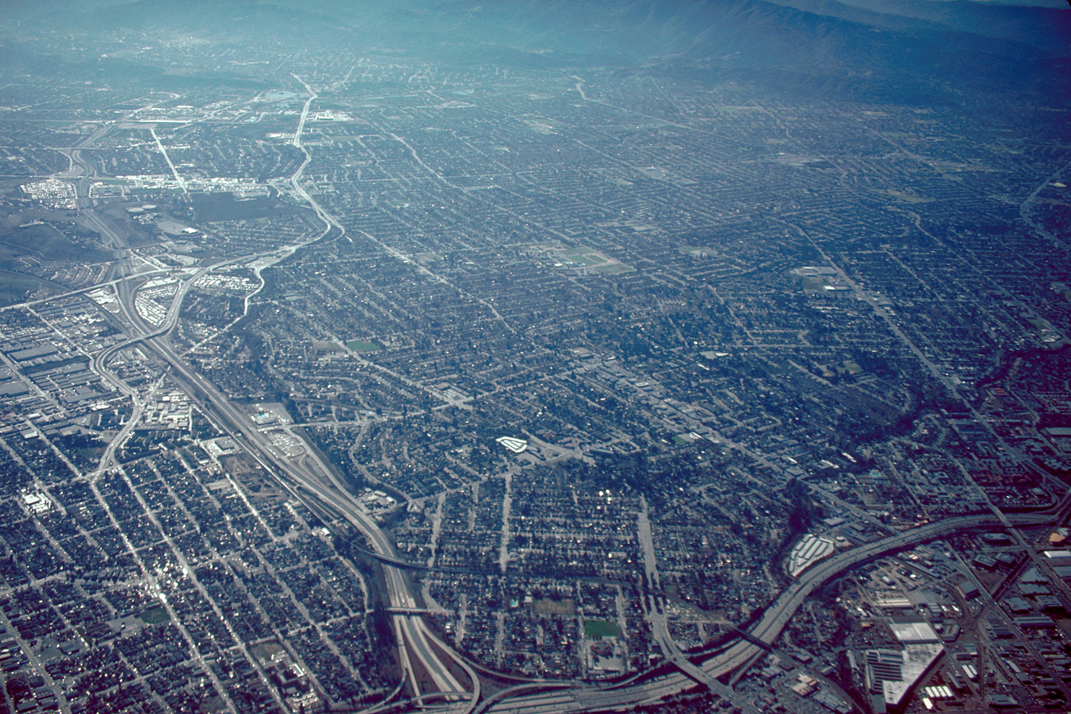 Aerial view of San José, California, USA. The intersection of Interstate-280 and California State Route 87 (Guadalupe Parkway) is visible at the bottom of the photograph. View is to the south. Coordinates: 37°19′7.84″N 121°53′35.92″W / 37.3188444°N 121.8933111°W